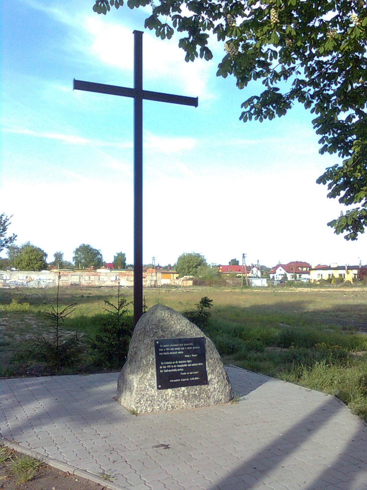 The cross and the monument commemorating Germans killed in Aleksandrów after WW2